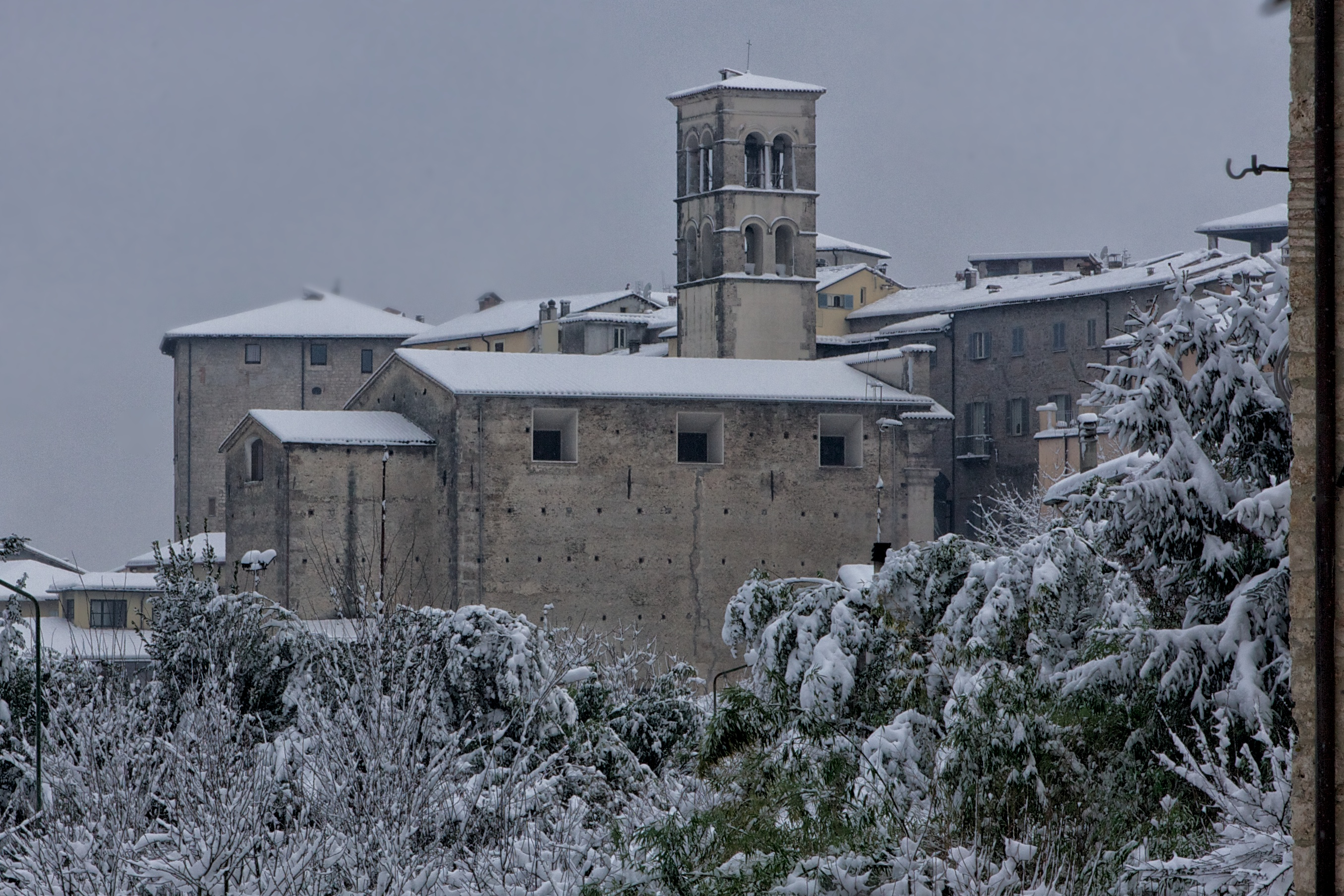 Santa Chiara church, Rieti (Lazio, Italy)